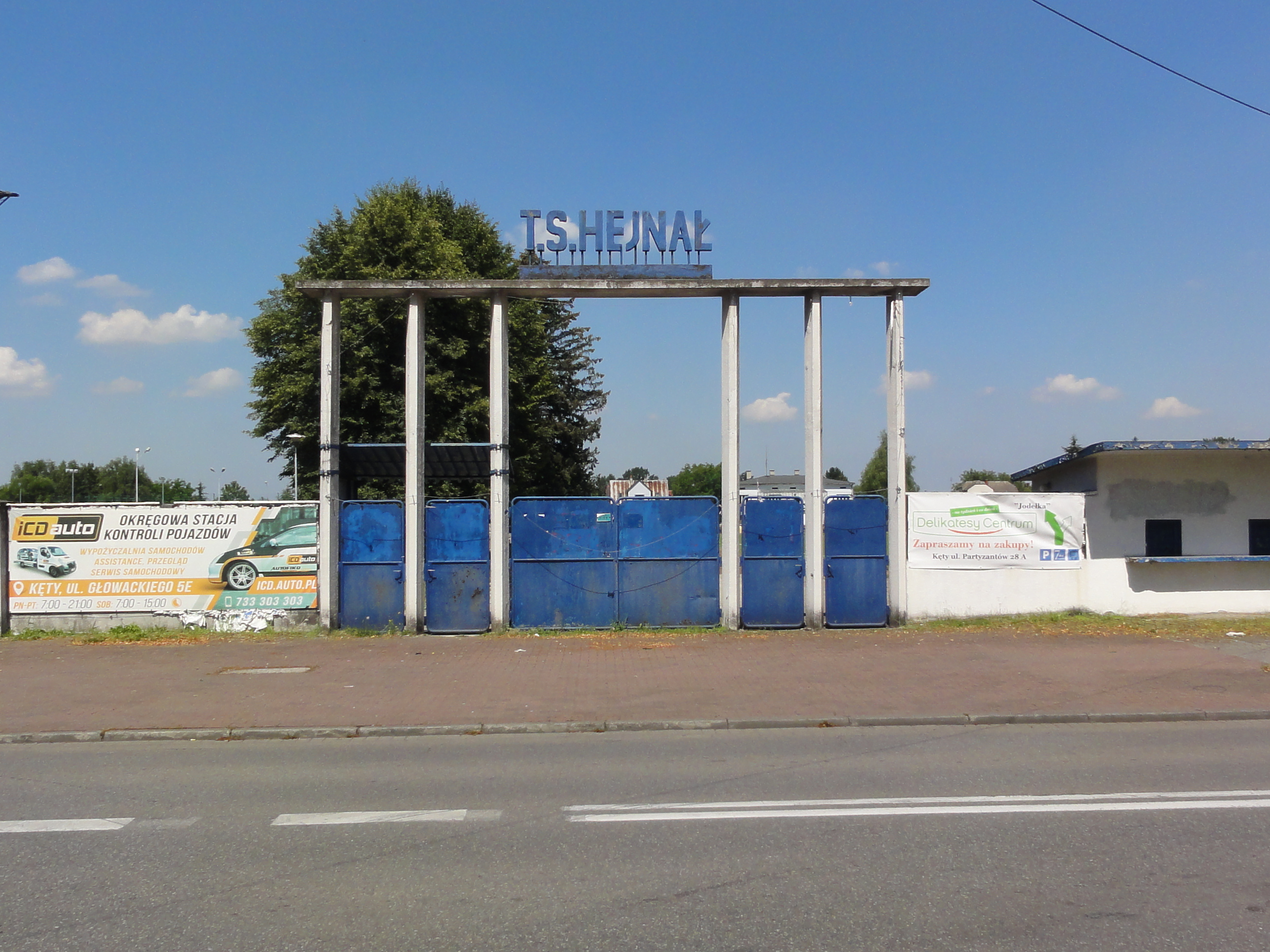 T.S. Hejnał Kęty